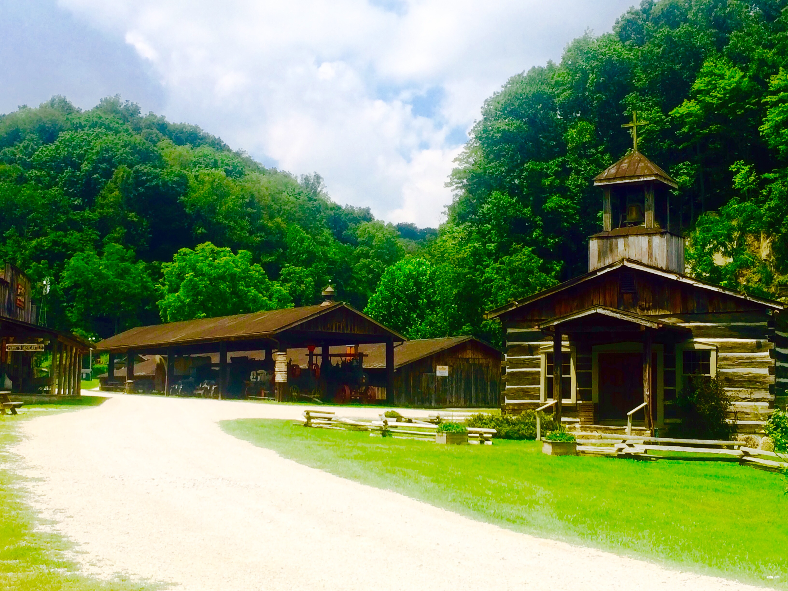 View of Heritage Village, including the country store museum, museum of transportation, and the log church.